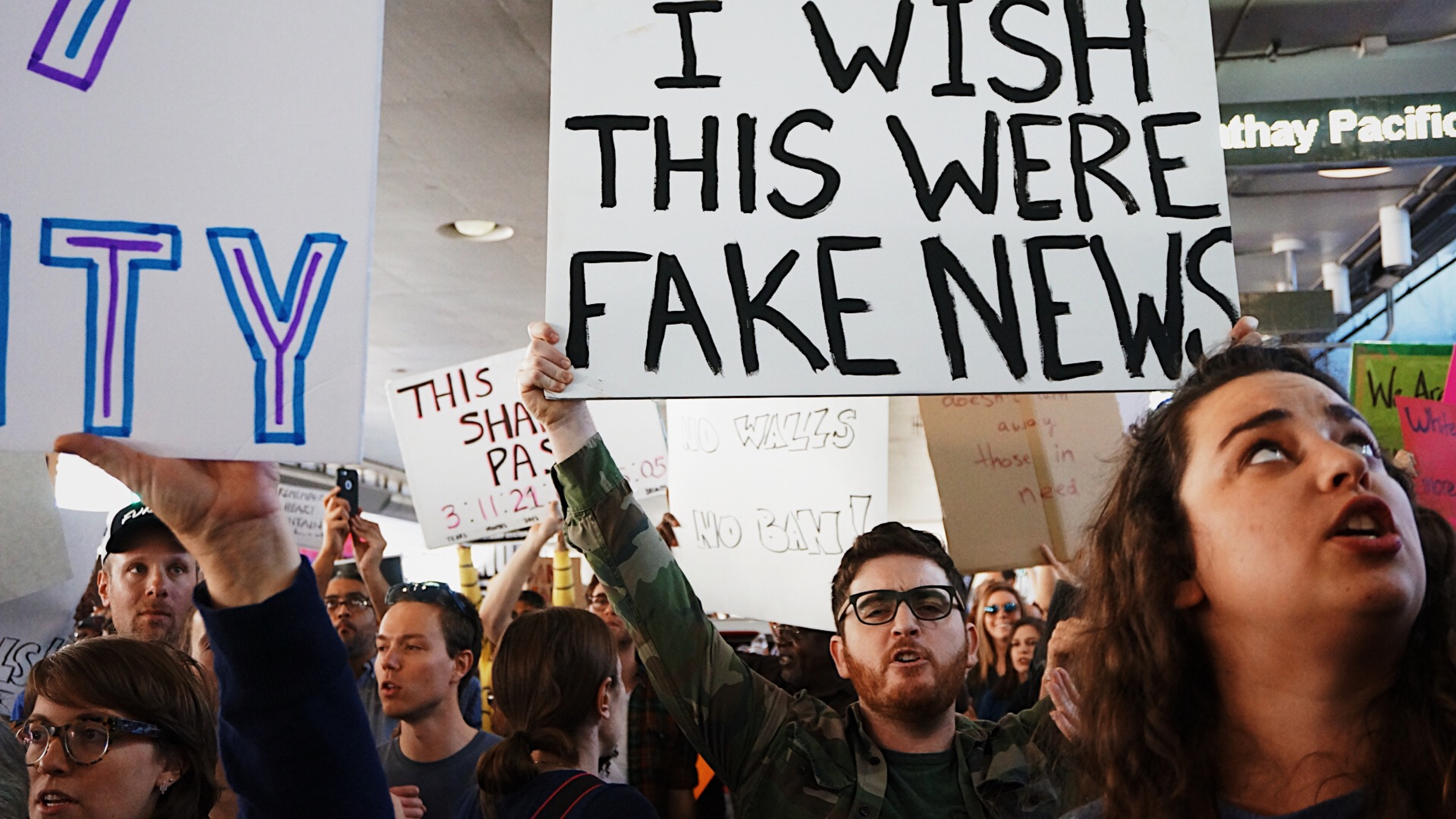 Los Angeles International Airport, Los Angeles, United States